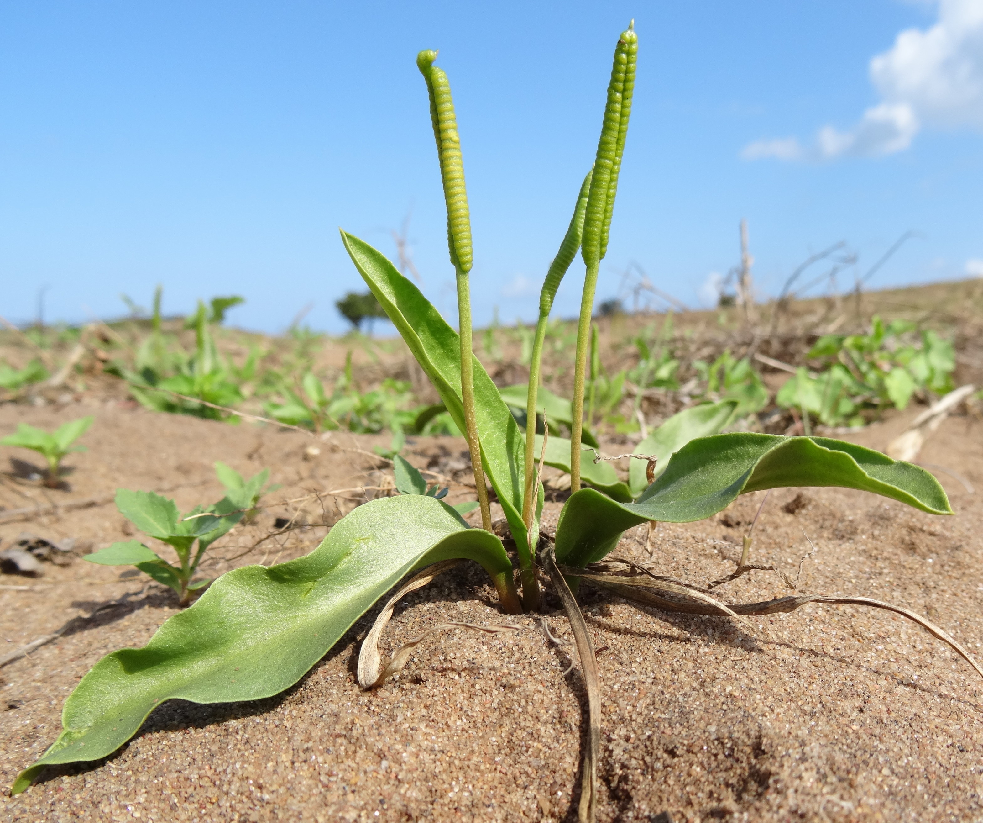 On humid sand in the dunes close to Xai-Xai, southern Mozambique. Ophioglossum polyphyllum ?